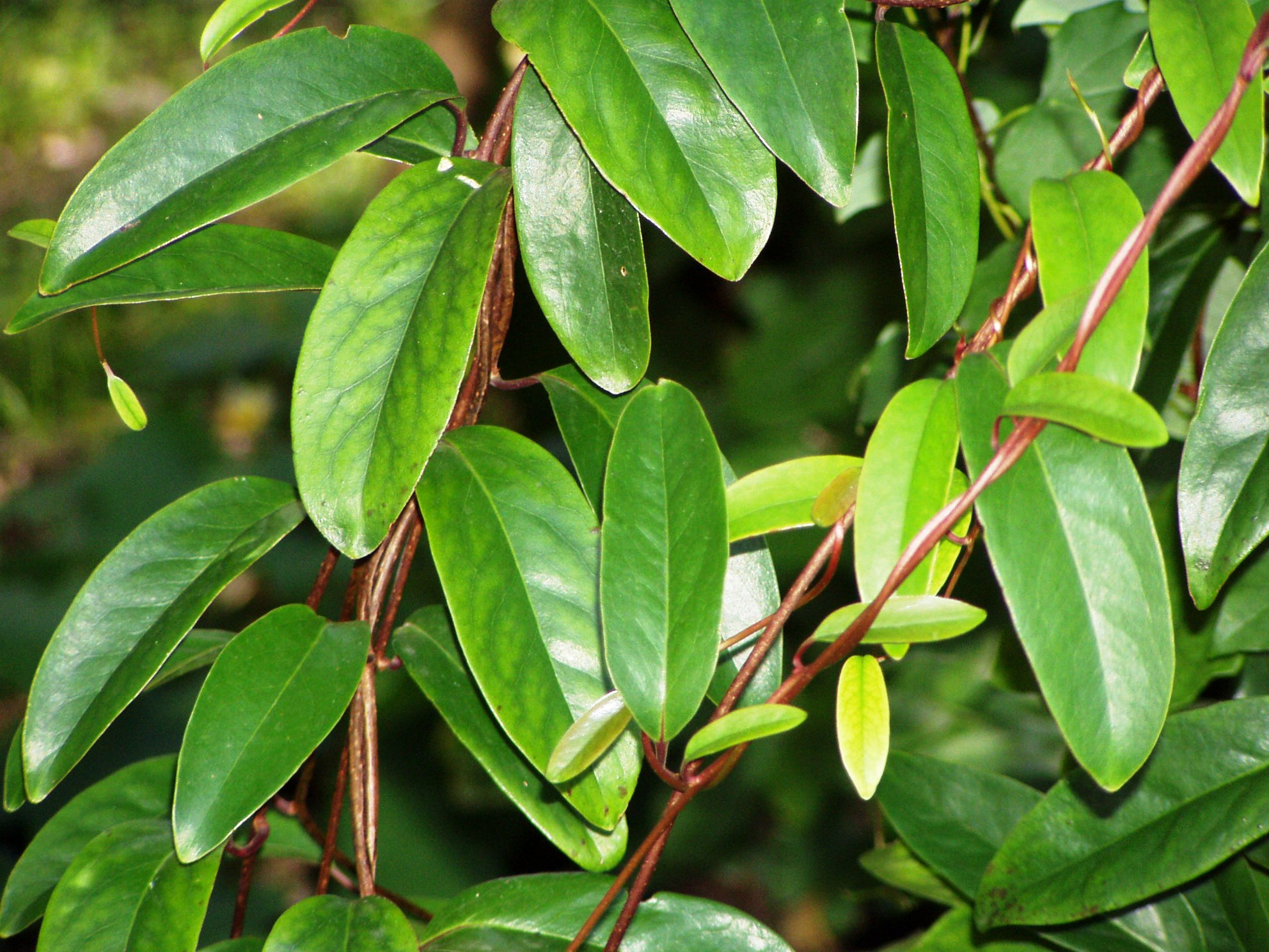 Japanese Kadsura. Lisbon Botanic Garden, Portugal.